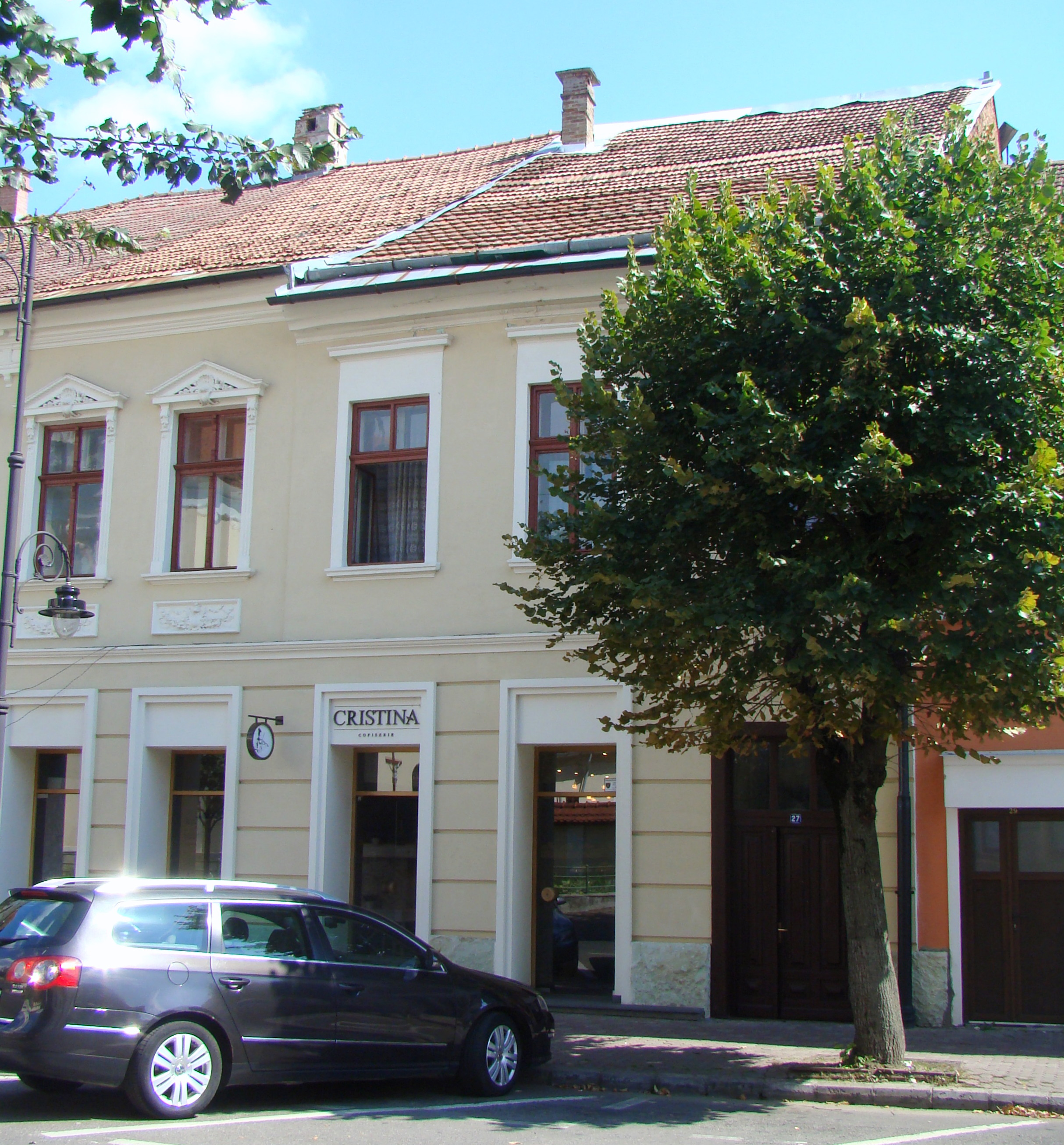 House, historic monument, in Bistrița, Gheorghe Șincai street 27